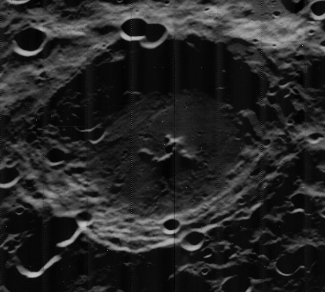 Oblique view of Poynting, on the far side of the moon, facing west.